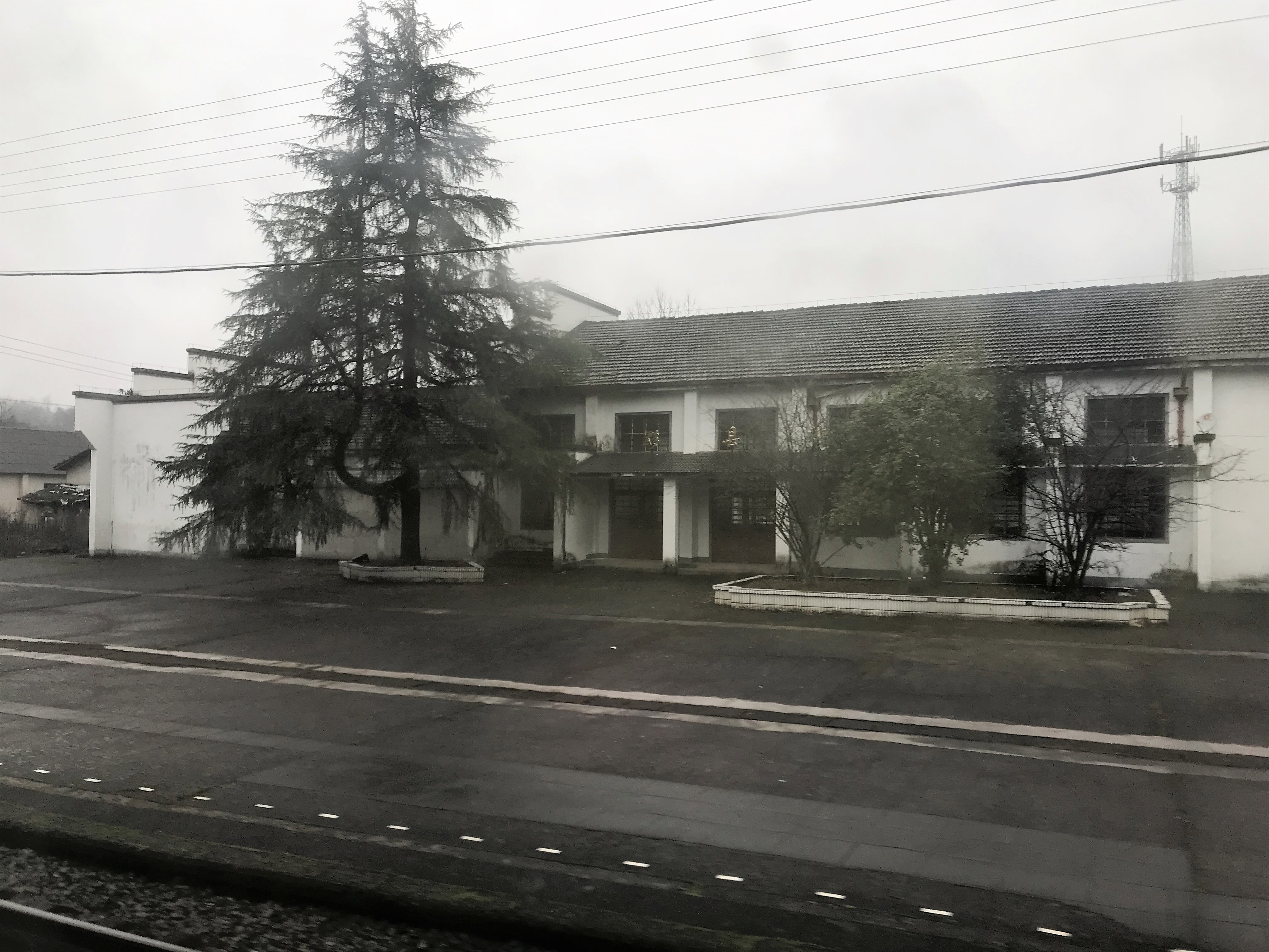 201901 Station Building of Yixian